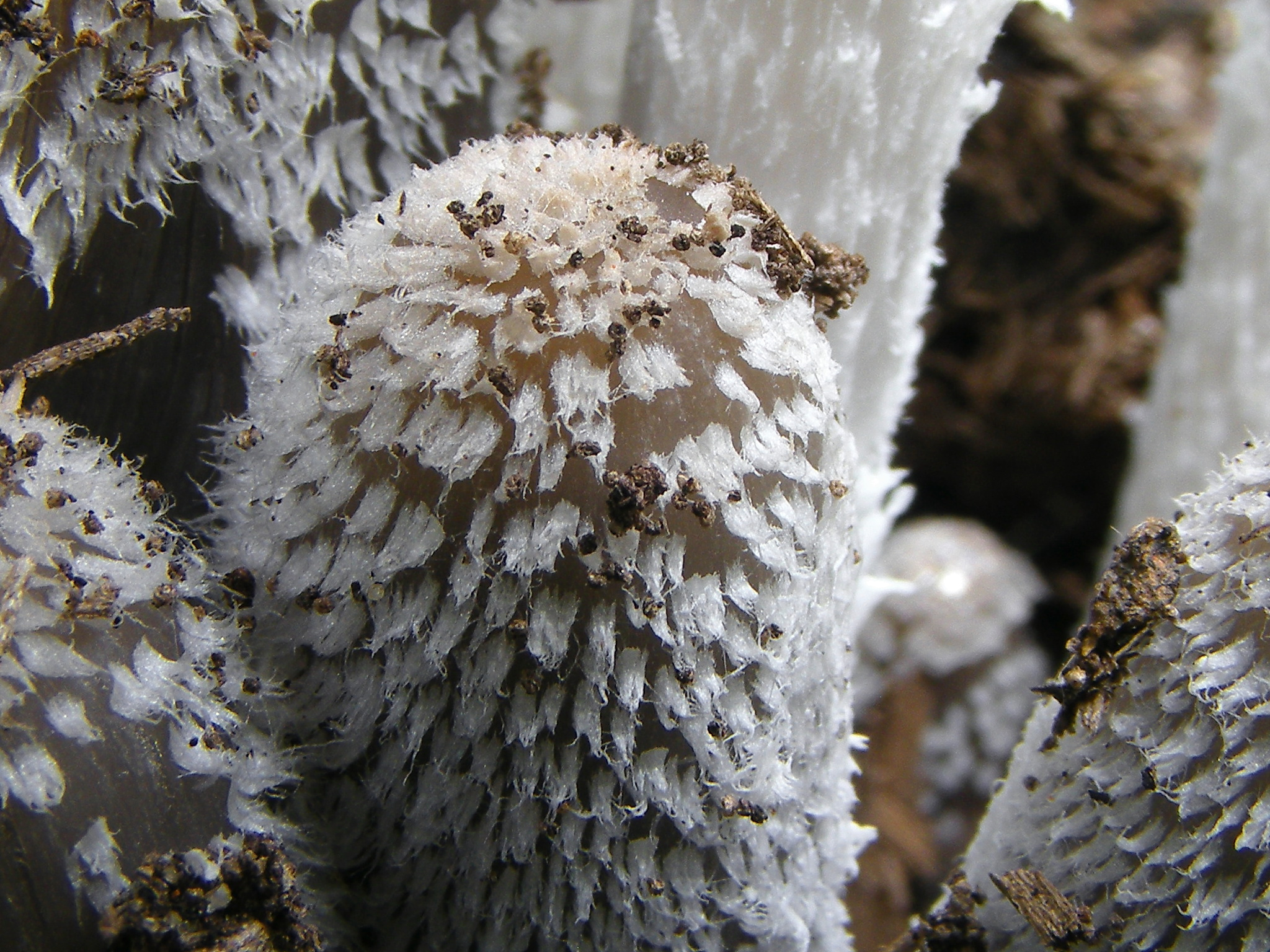 Coprinopsis lagopus - young pileus close-up.